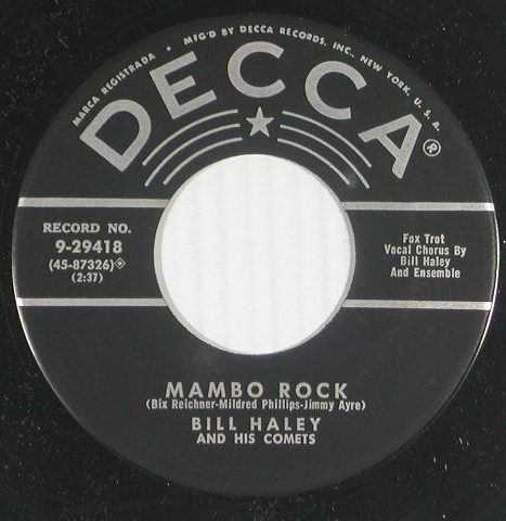 Mambo Rock by Bill Haley and his Comets, Decca 1955.